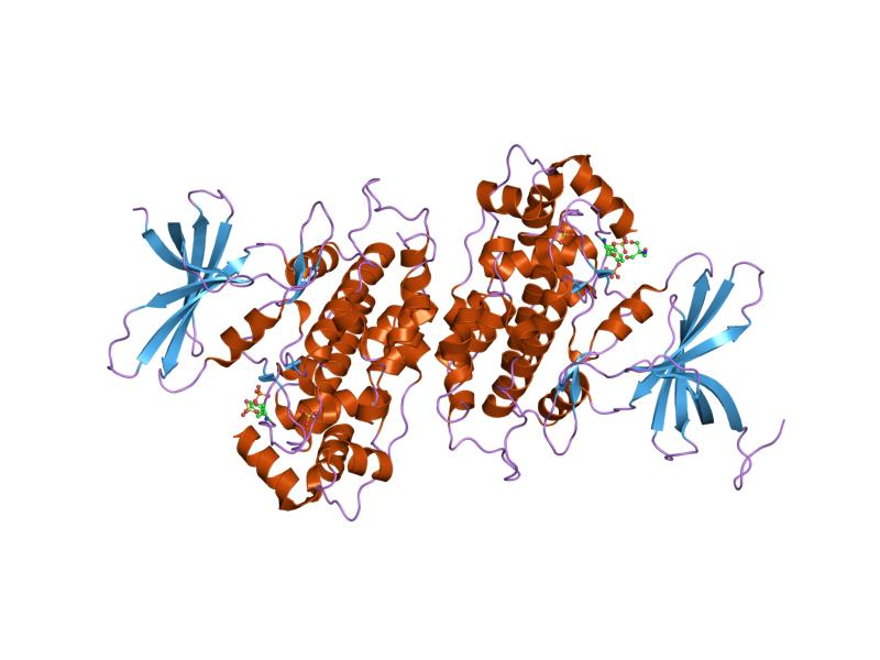 Cartoon representation of the molecular structure of protein registered with 1gng code.